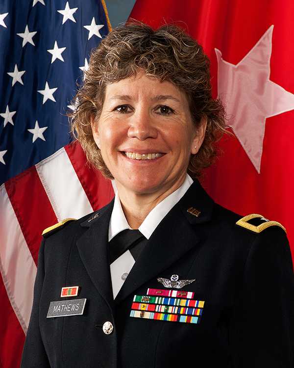 Brig. Gen. Joane K. Mathews